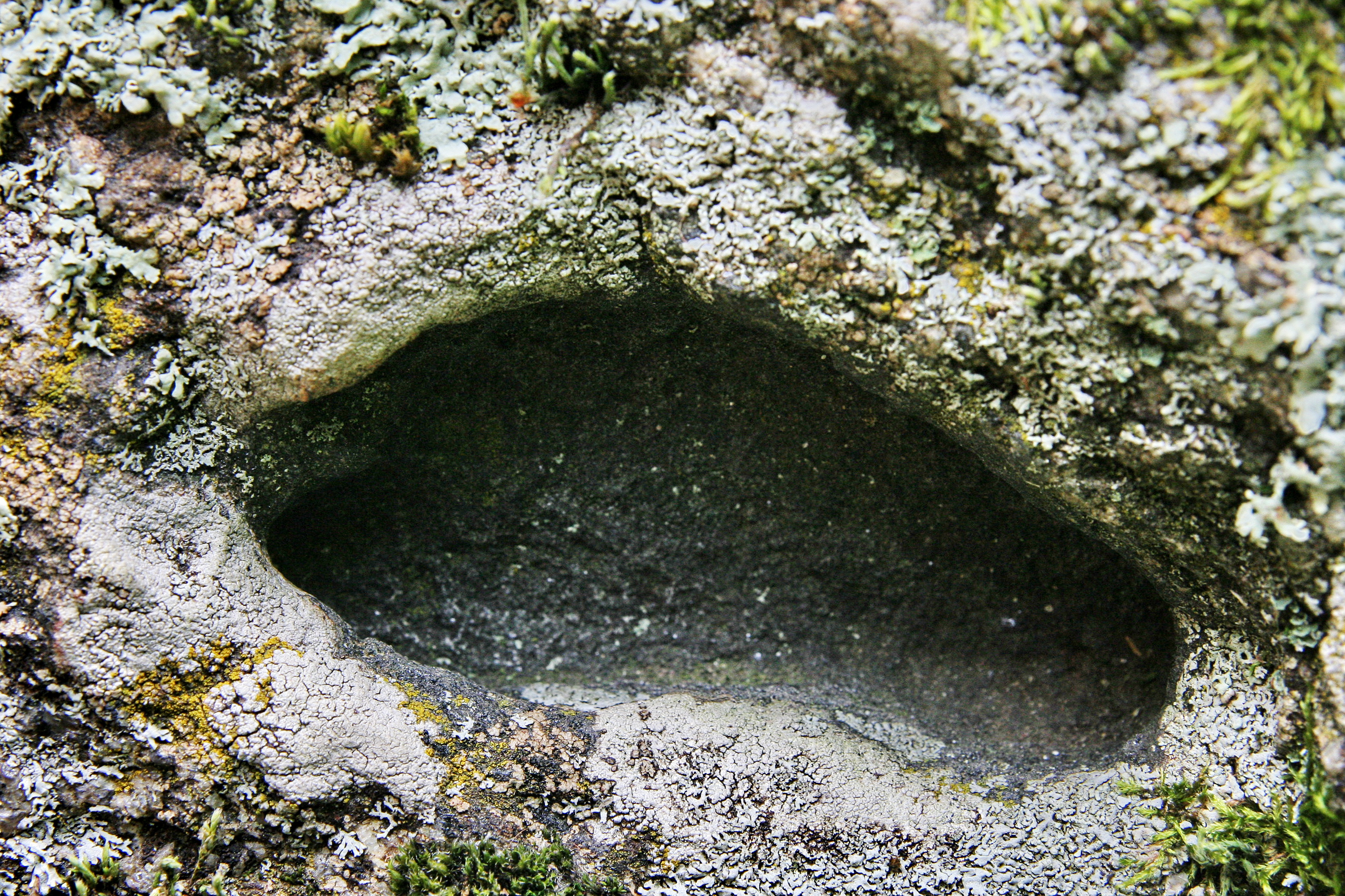 Closeup view of a stone with imprint near Bečiai village, Lithuania